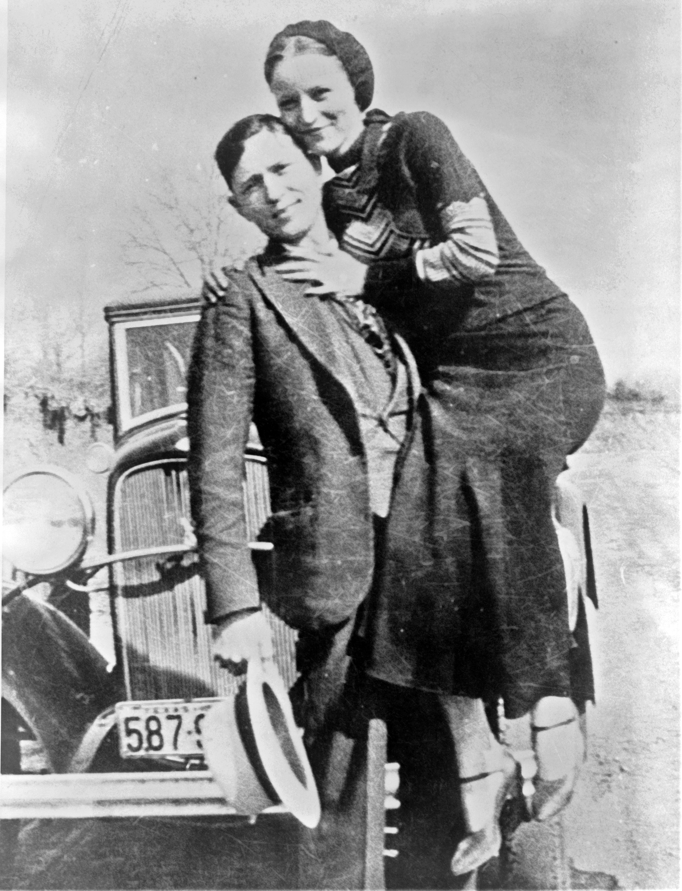 Bonnie Parker and Clyde Barrow, sometime between 1932 and 1934, when their exploits in Arkansas included murder, robbery, and kidnapping. Contrary to popular belief the two never married. They were in a long standing relationship. Posing in front of a 1932 Ford V8 automobile. Recovered from Bonnie and Clyde after their deaths on May 23, 1934.